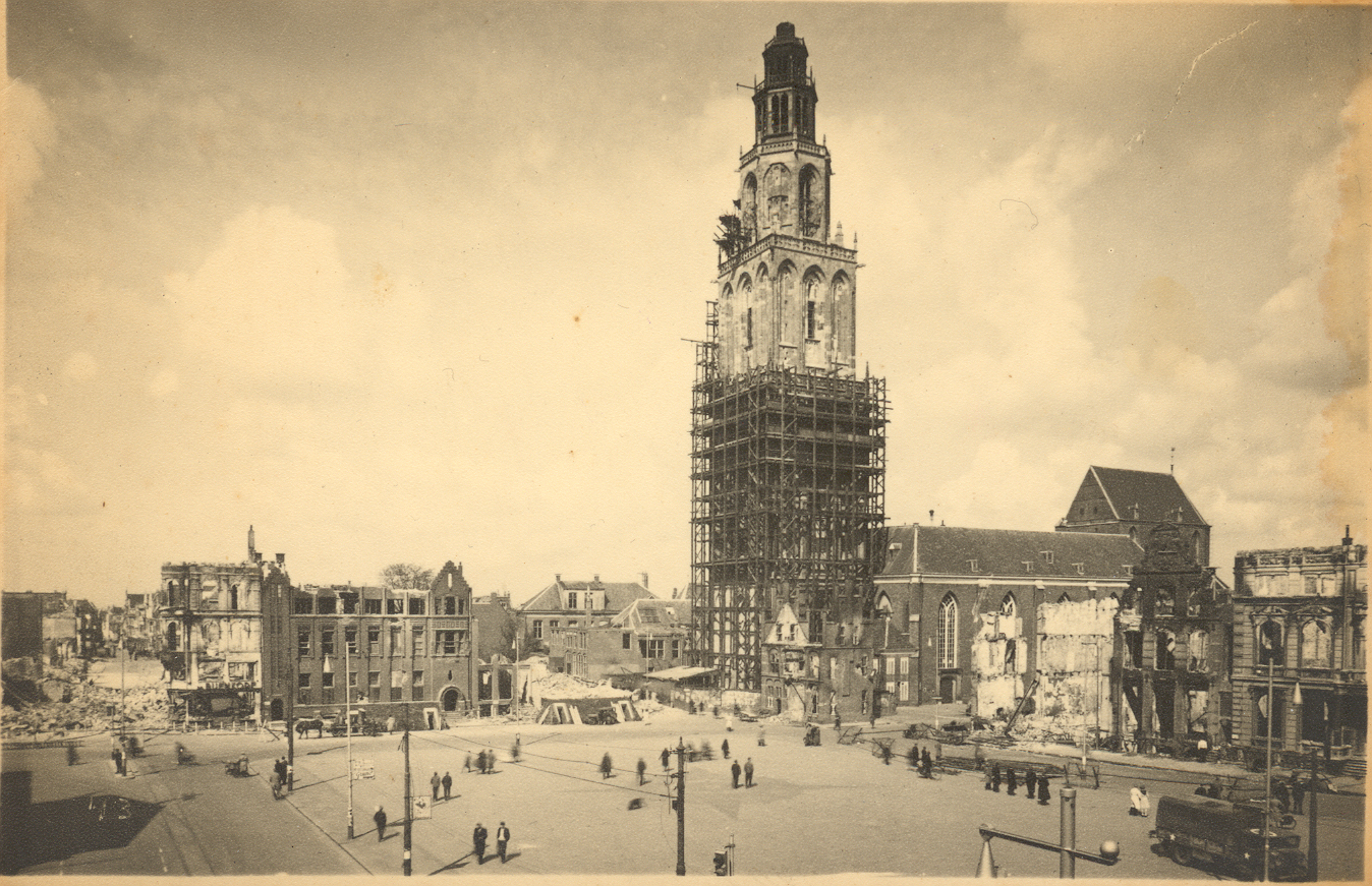 Grote Markt Groningen after the bombing in april 1945 - Scholtenhuis (r.)